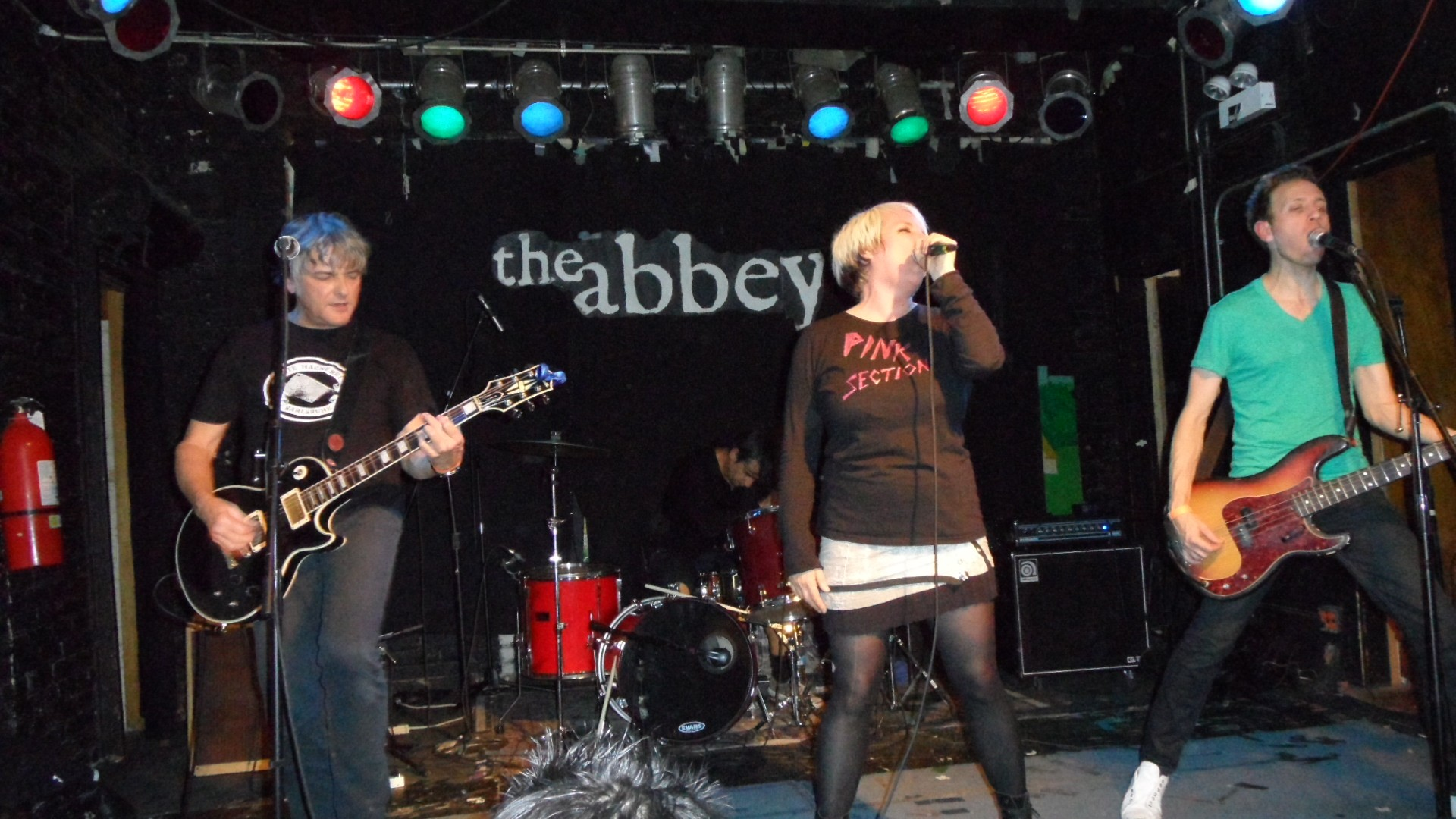 The Avengers (band) performing at the Abbey Pub in Chicago on 10/29/2012